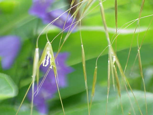 Species: Stipa gigantea Family: Poaceae Image No. 1